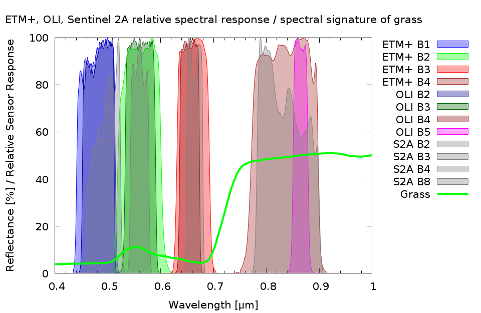 Spectral responses of Landsat 7 ETM+, Landsat 8 OLI and Sentinel 2 MSI in the visible and near infrared. Spectral signature of lawn grass for comparison. Data from ASTER Spectral library, Landsat Program and ESA Copernicus Sentinel Program.